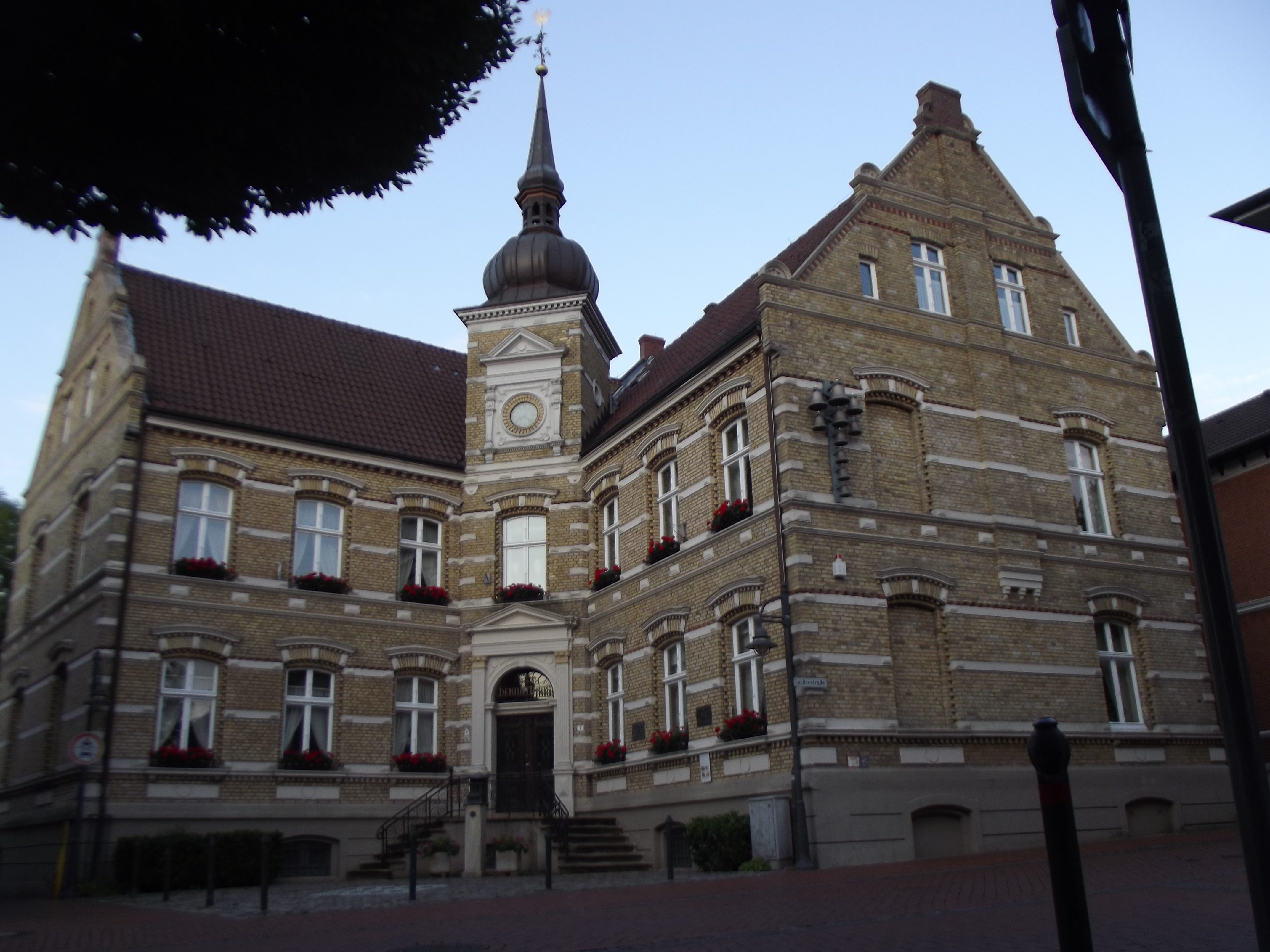 Museum of local history Steinfurt-Borghorst